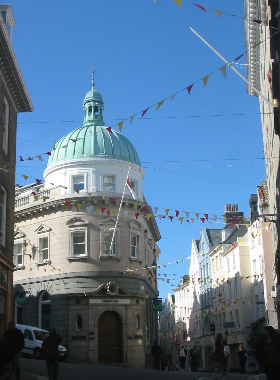 Saint Peter Port, Guernsey, May 2009